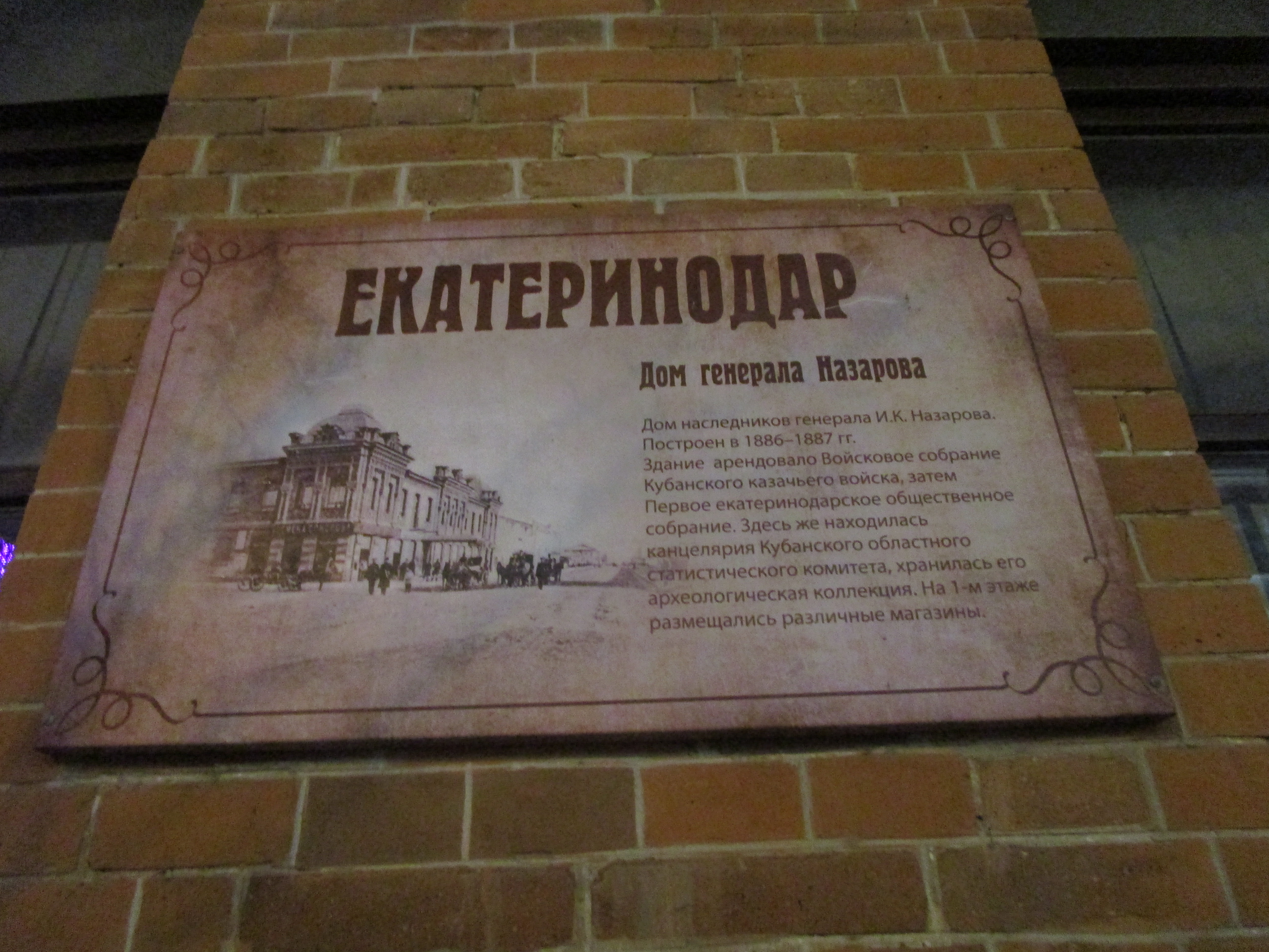 Sign, describing history of buildings former Ekaterinodar